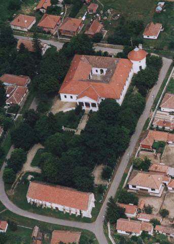 Nagykereki, Hungary, aerialphotography This is a photo of a monument in Hungary. Identifier: 5364